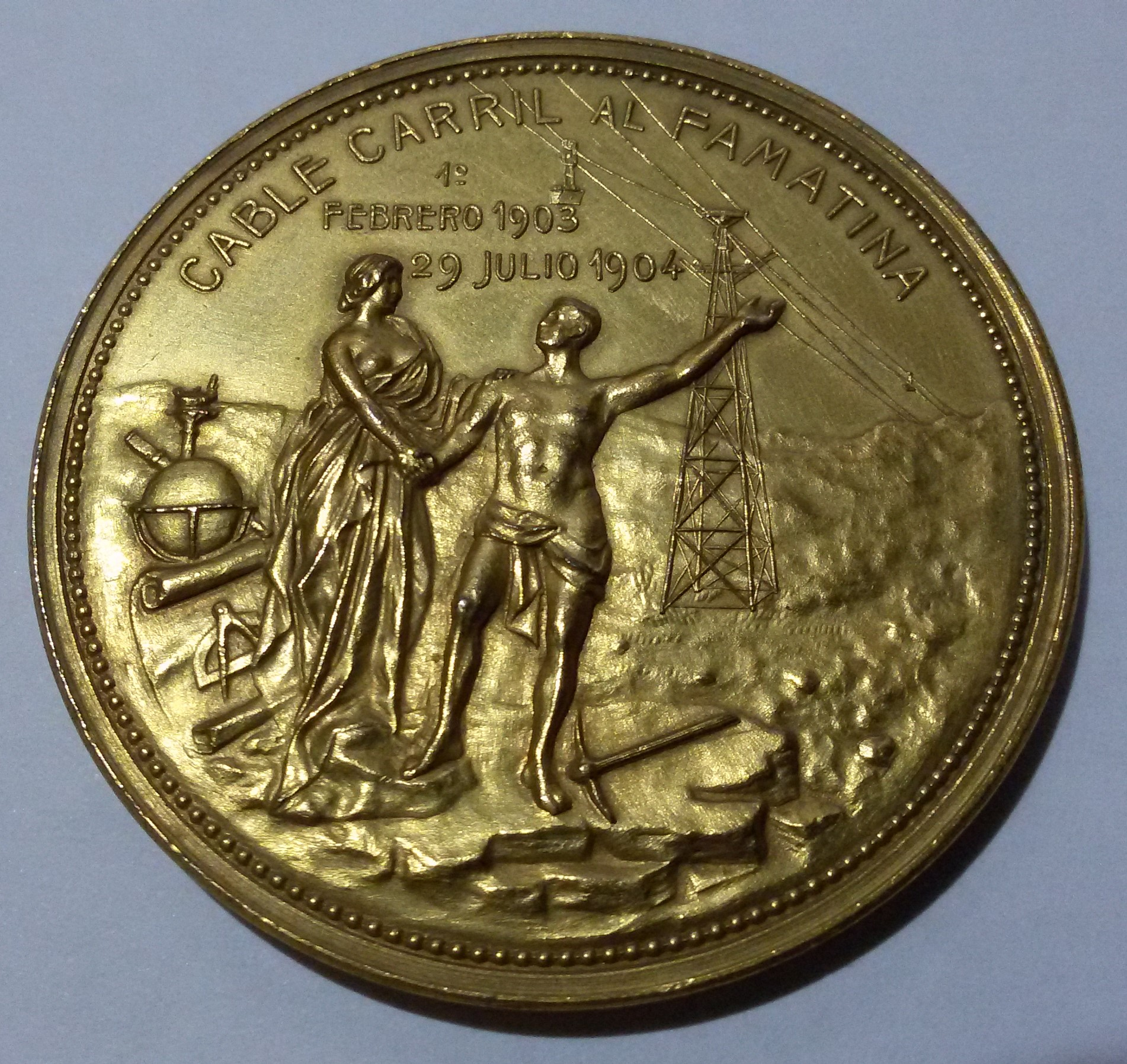 Cable Carril Al Famatina (Argentina) - Commemorative Medal (February 1903 - July 1904)